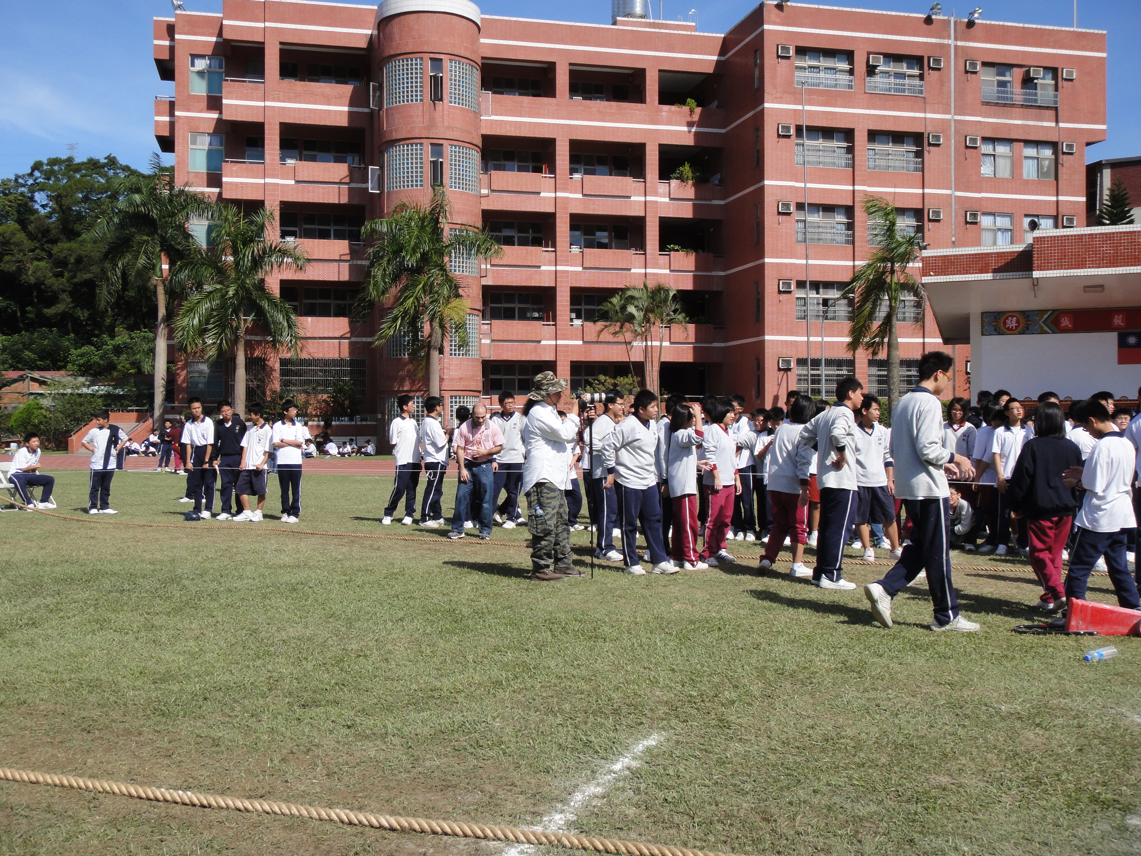 Junior High Department Academic Building